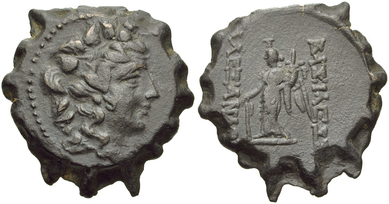 217, Lot: 160. Estimate $100. Sold for $230. This amount does not include the buyer’s fee. SELEUKID KINGS of SYRIA. Alexander II Zabinas. 128-122 BC. Æ Serrate 18mm (5.81 g, 1h). Apamea on the Orontes(?) mint. Head of young Dionysos right, wearing ivy wreath / Winged Tyche standing left, wearing kalathos, holding ship’s tiller and cornucopia. SC 2242. VF, dark brown patina.